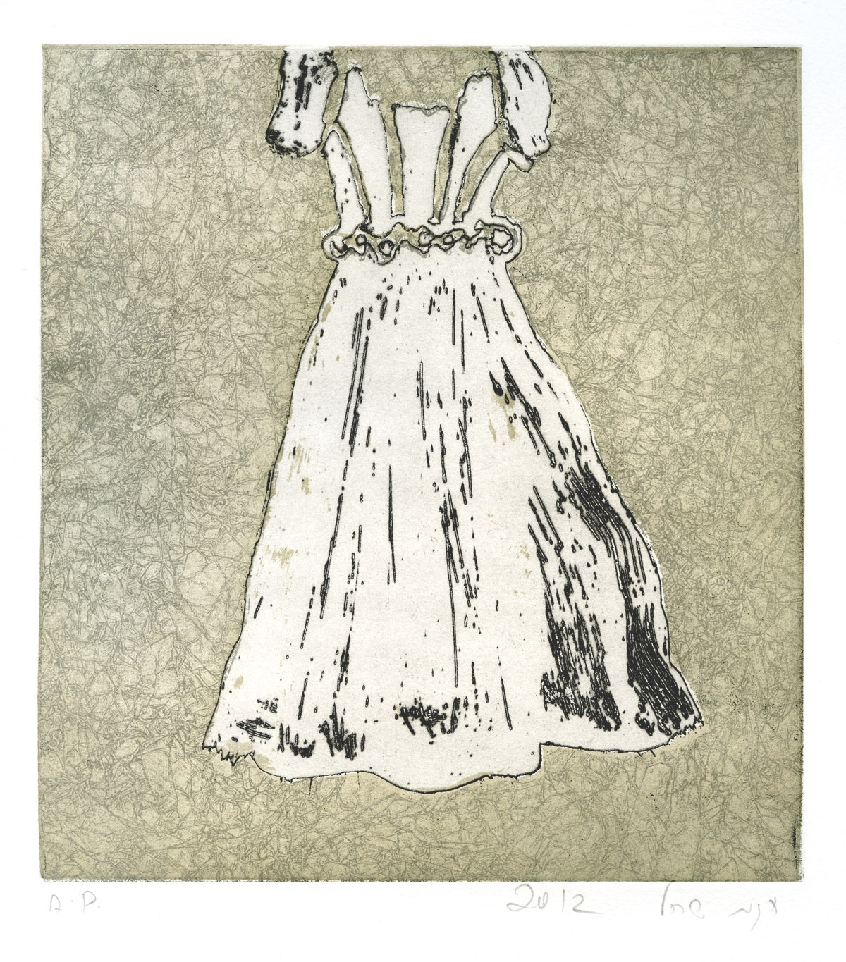 Flat Dress by Hagit Shahal